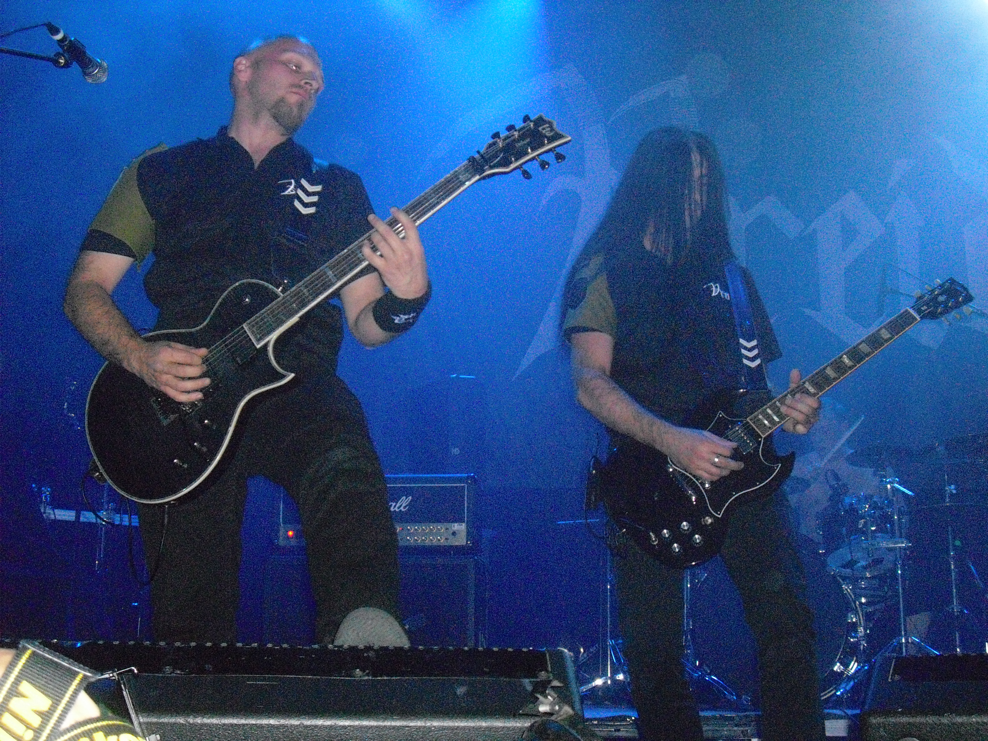 Vreid performing live in Oslo in June 2012